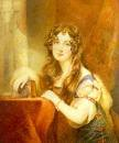 Susan duchess of Marlborough